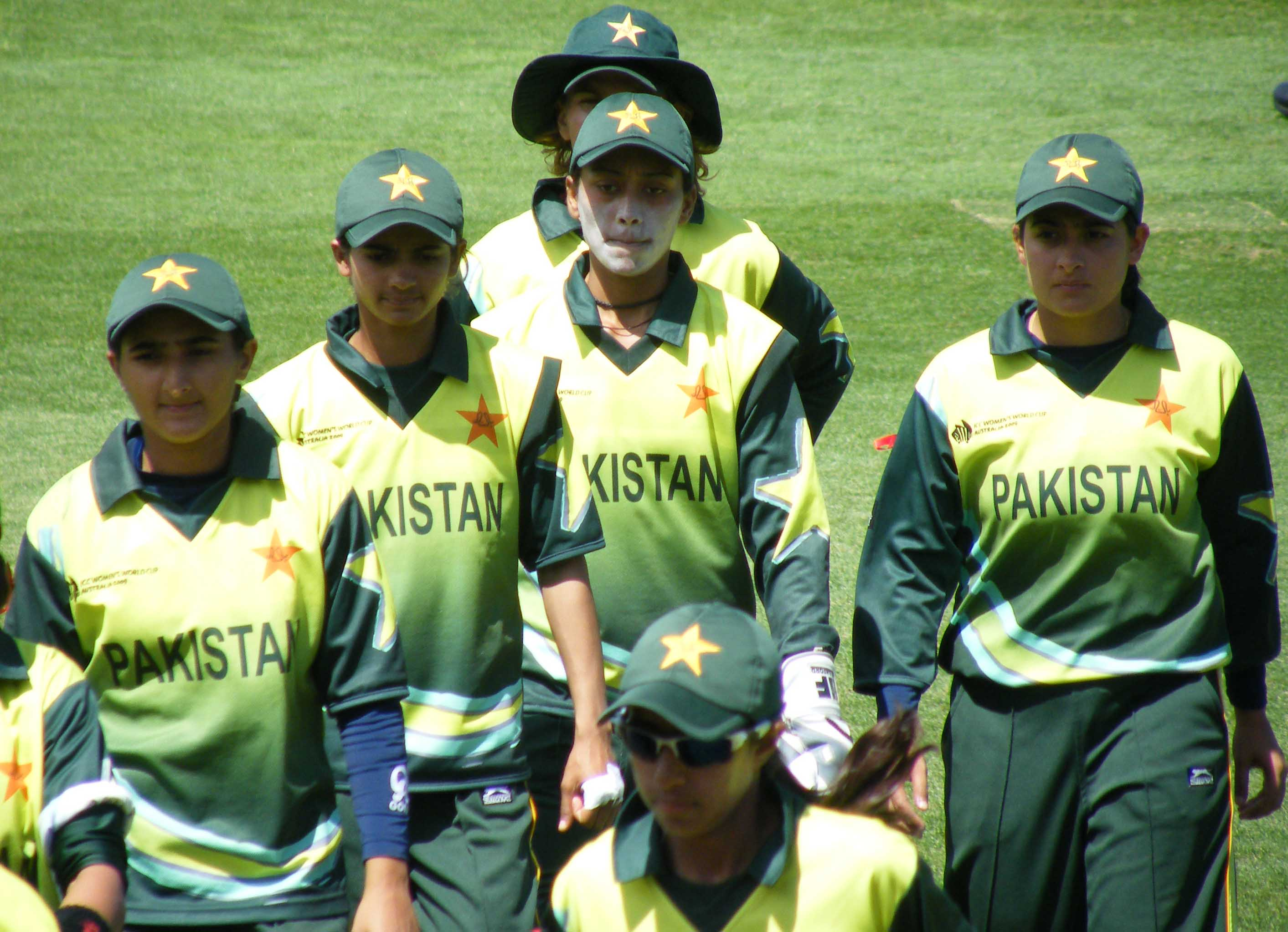 Pakistan Cricket Team - ICC Women's Cricket World Cup, Sydney, March 2009.